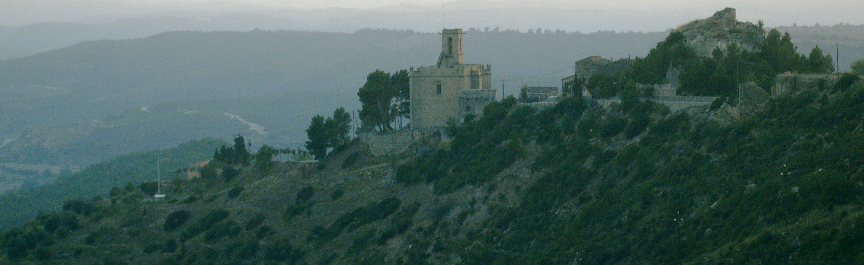 It's a "panoramic" of Rubió.